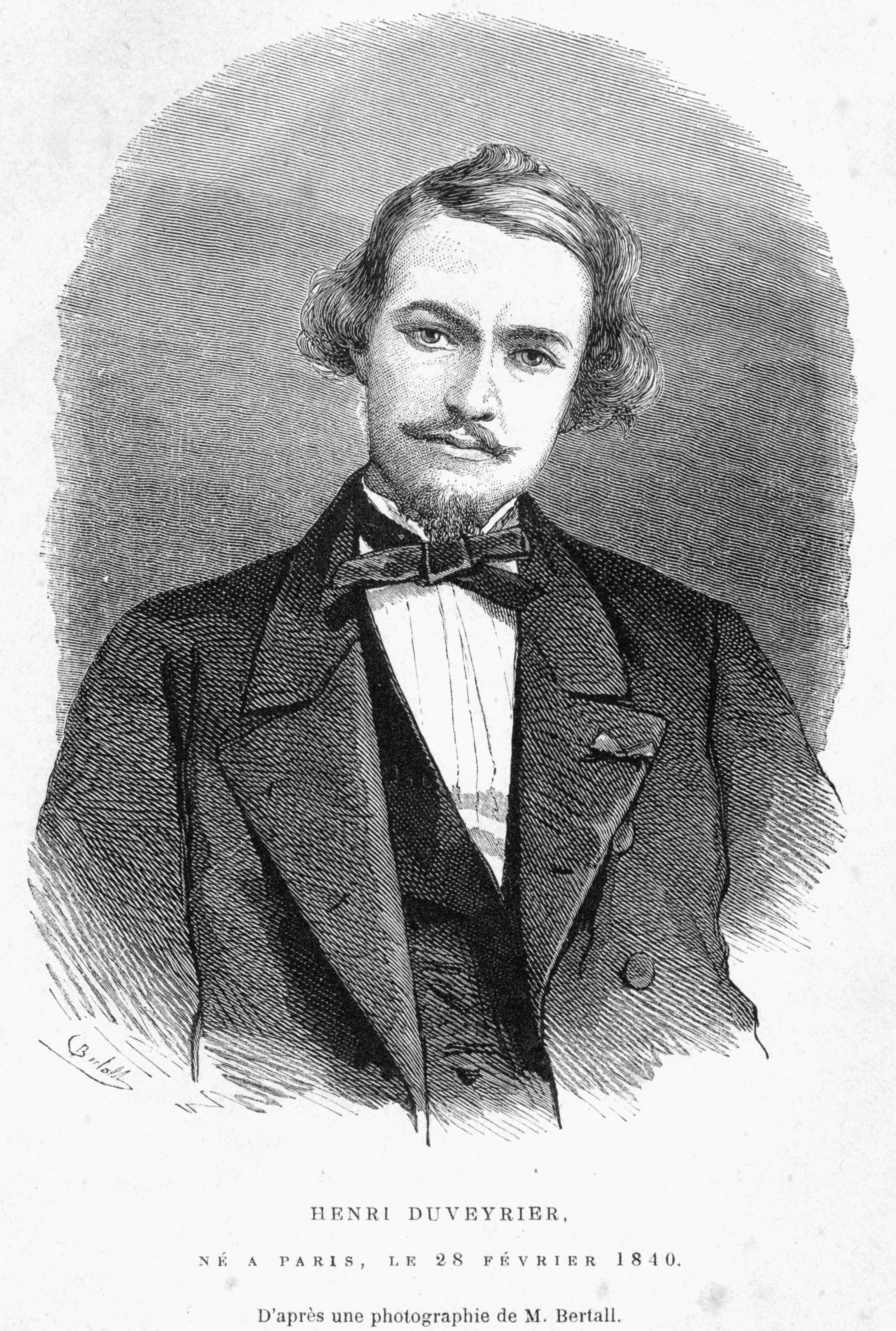 Henri Duveyrier (1840-1893) when about 24 years old